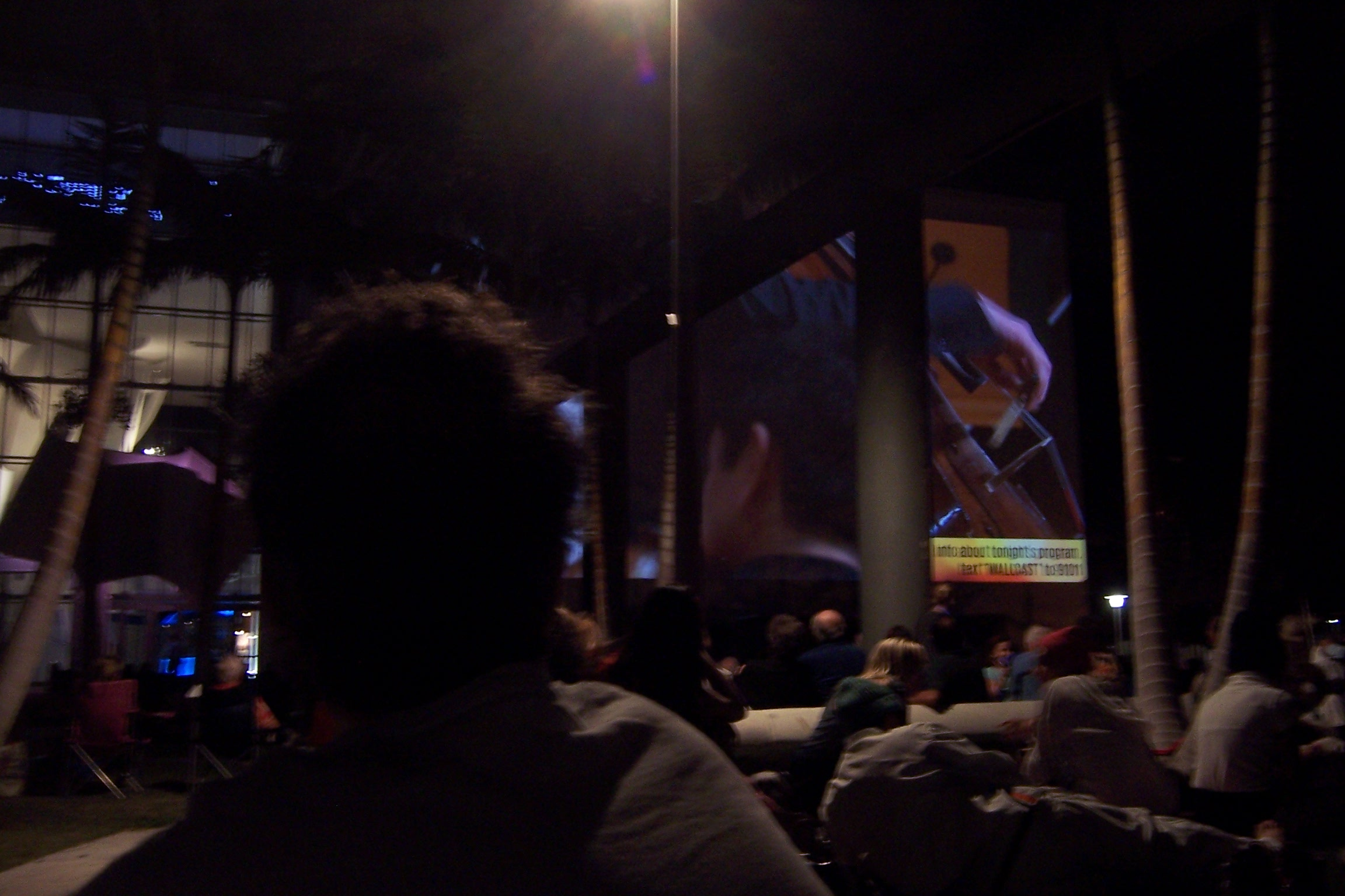 Audience members watching an outside "wallcast" performance at the New World Center in Miami Beach, Florida. The performance is of Dvorak's Cello Concerto, with soloist Johannes Moser (pictured) playing with the New World Symphony as conducted by Manfred Honeck.